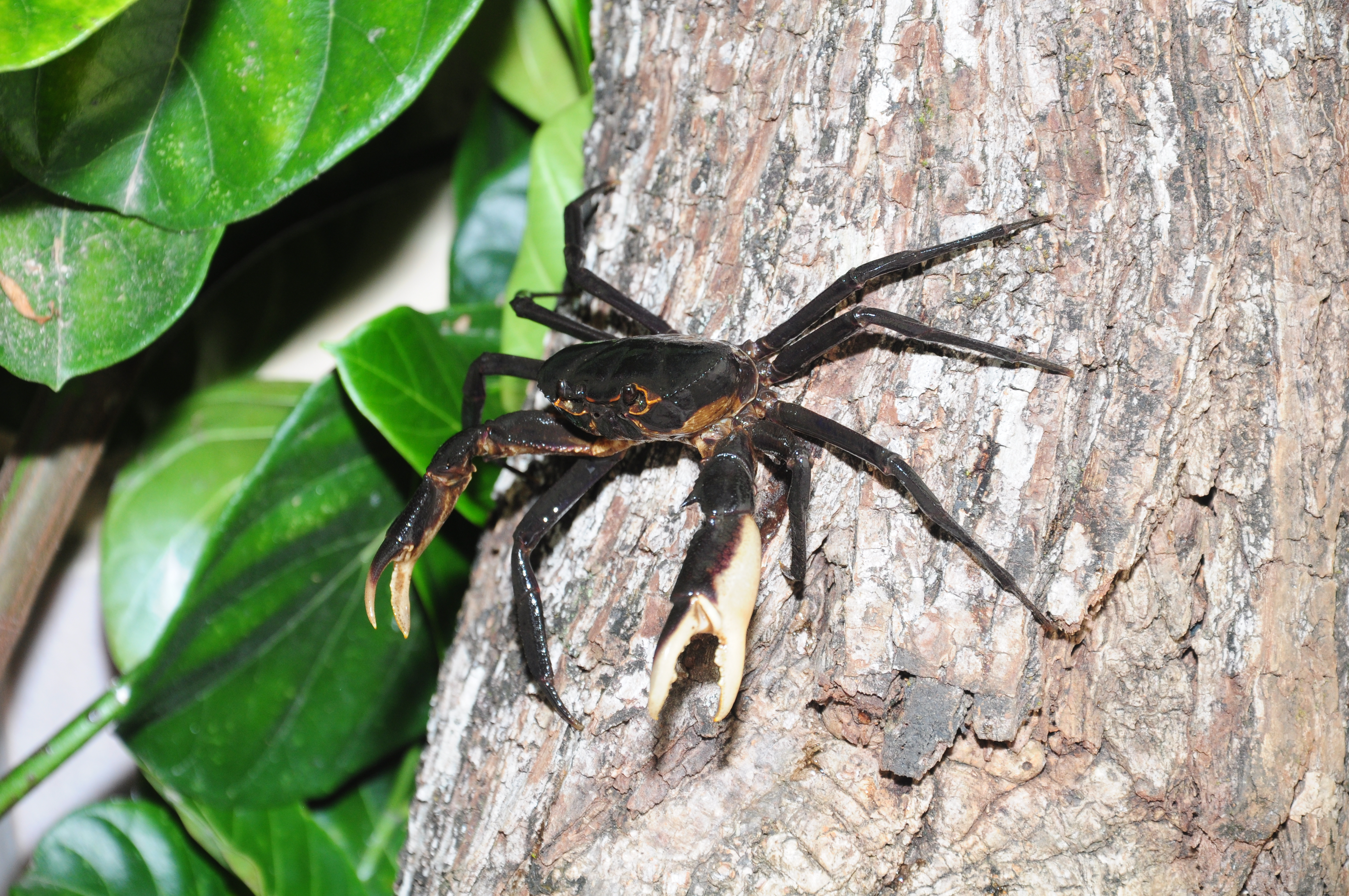 Kani maranjandu is a species of tree crab first identified in 2017 by Biju Kumar, Smrithy Raj and Peter Ng. This is the first fully arboreal tree crab described from India